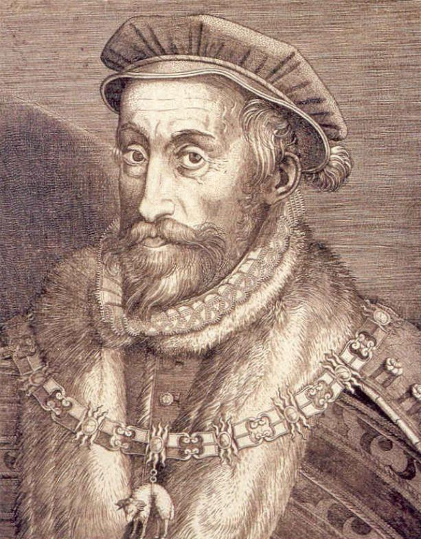 Maximilian II, Holy Roman Emperor